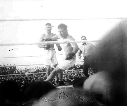 "Image of pugilist Billy Miske falling to the mat in a boxing ring during a bout against Jack Dempsey, held in Benton Harbor, Michigan, on September 6, 1920. Dempsey and a referee are standing in the background."